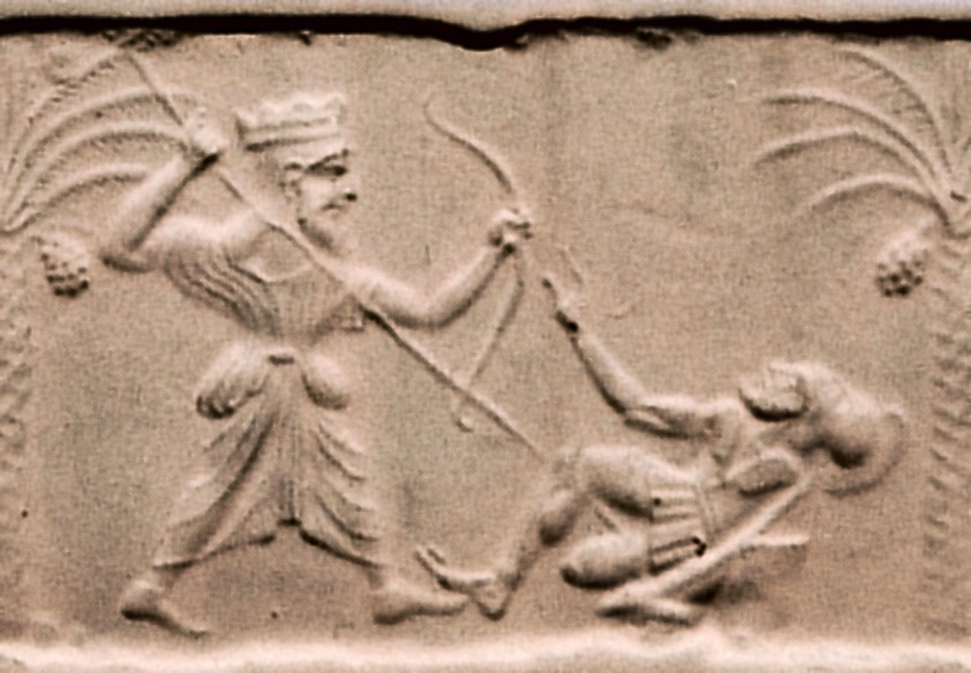 Achaemenid king killing a Greek hoplite. A possible depiction of Xerxes killing Leonidas [1]. Full image with original cylinder on this page.